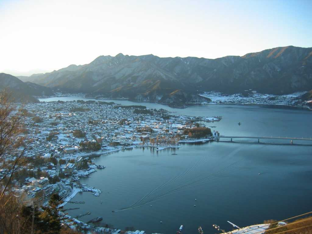 Lake Kawaguchiko